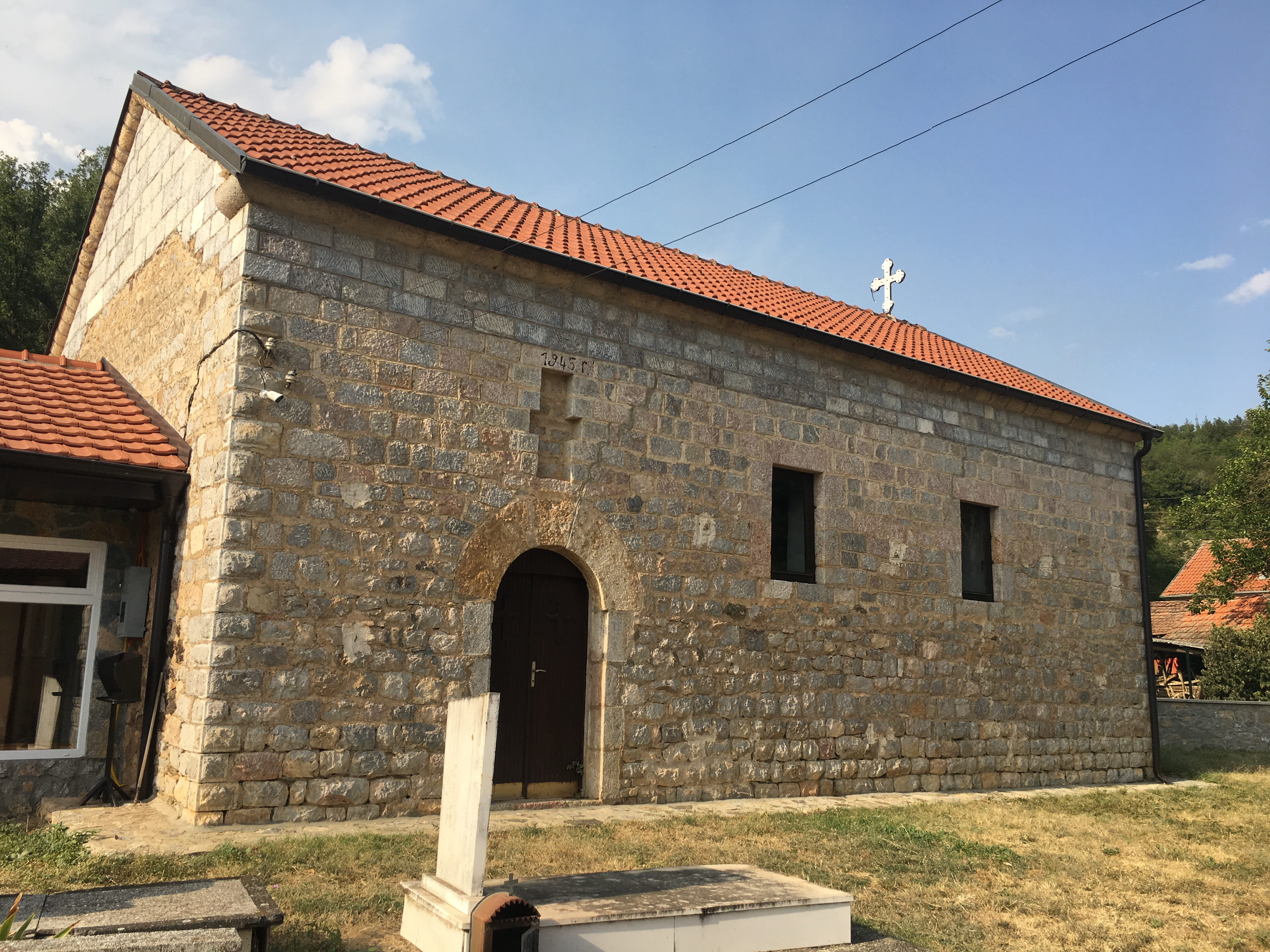 St. Nedela Church in the village of Vapila